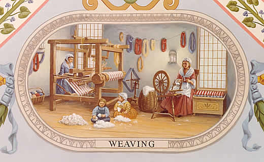 EverGreene Painting Studios Oil on Canvas 1993-1994 Cox Corridors The craft is shown as a family operation, with children carding the wool, a young woman spinning it, and an older woman operating a loom.